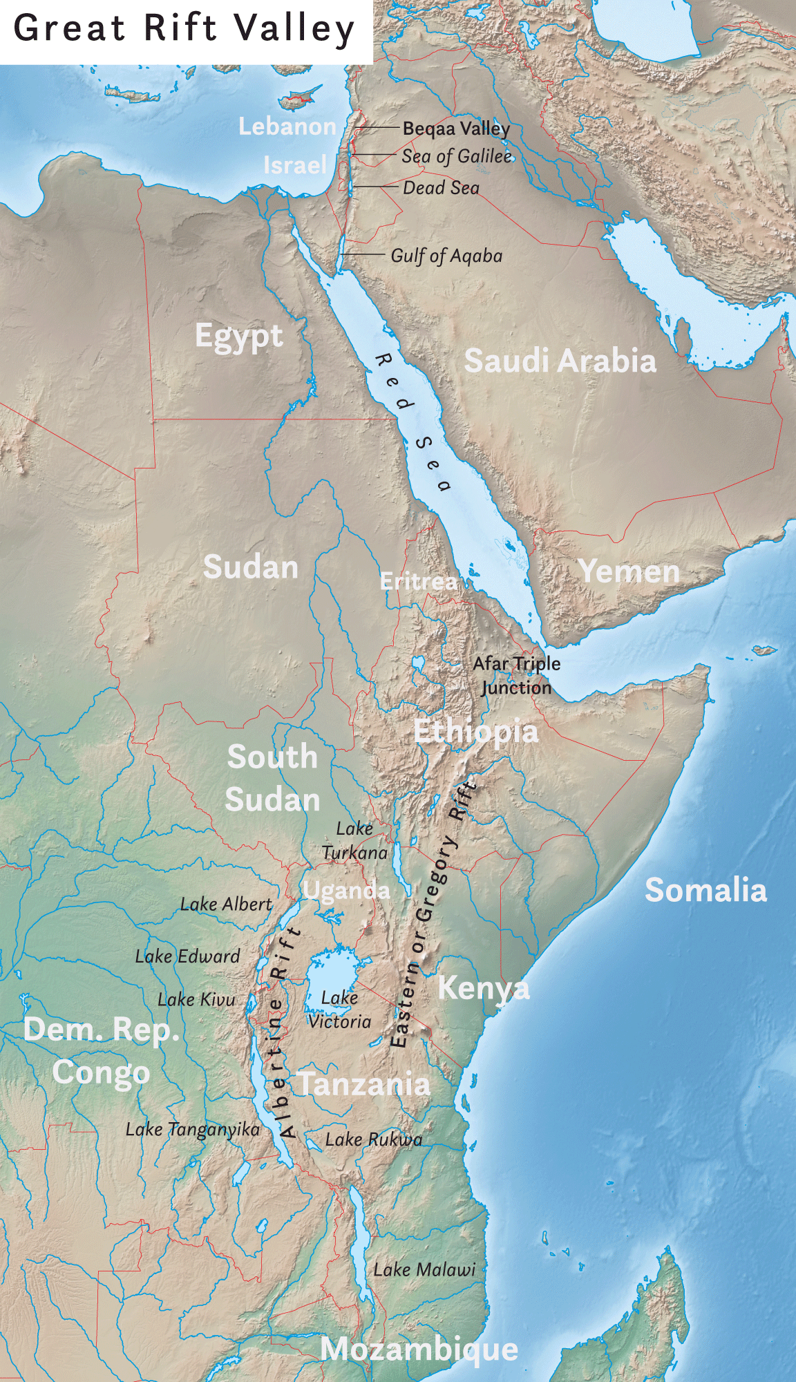 Map of the Great Rift Valley in Africa and the Middle East.